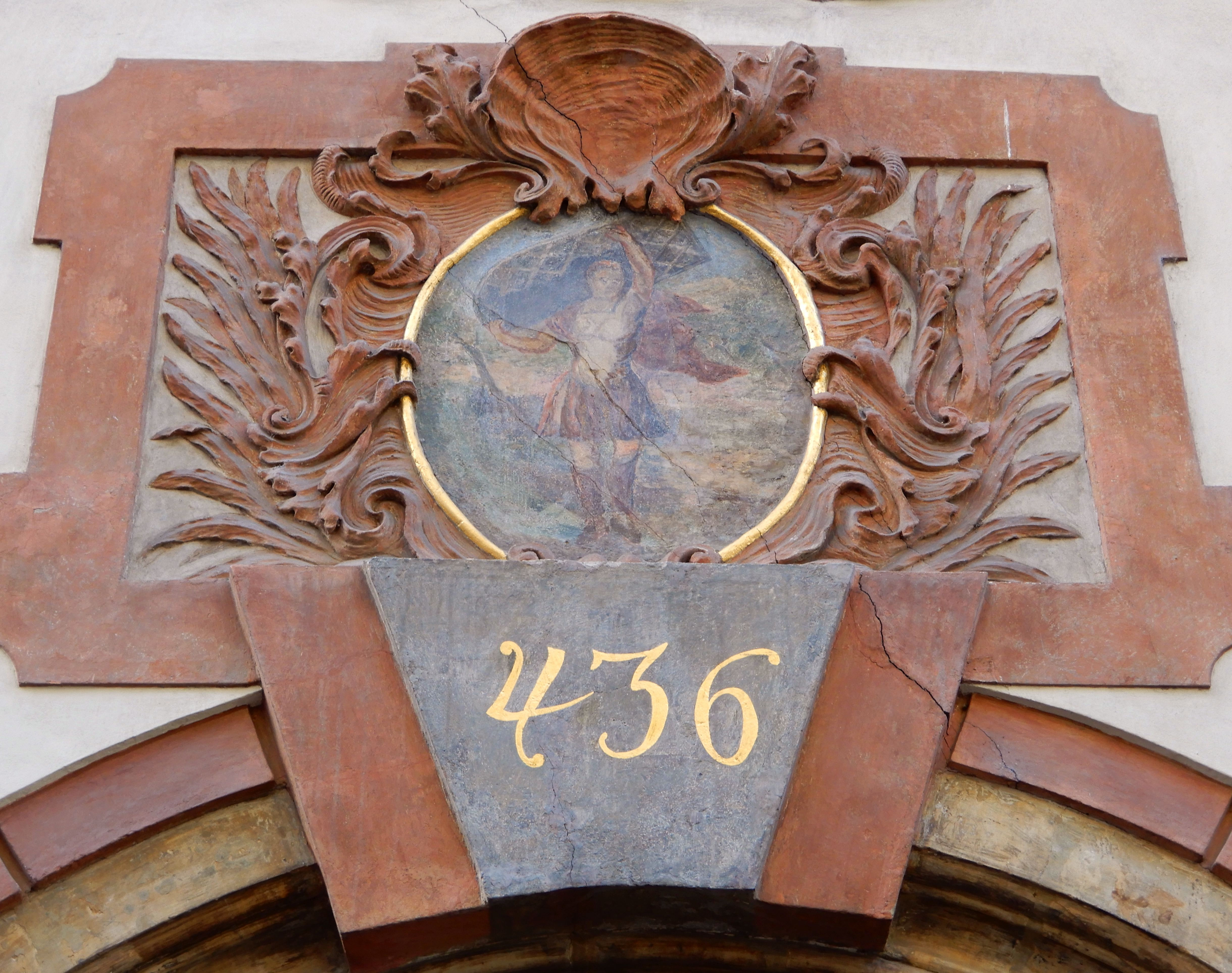 House sign Samson with gate of Gaza, Michalská street No. 436-I, Prague-Old Town